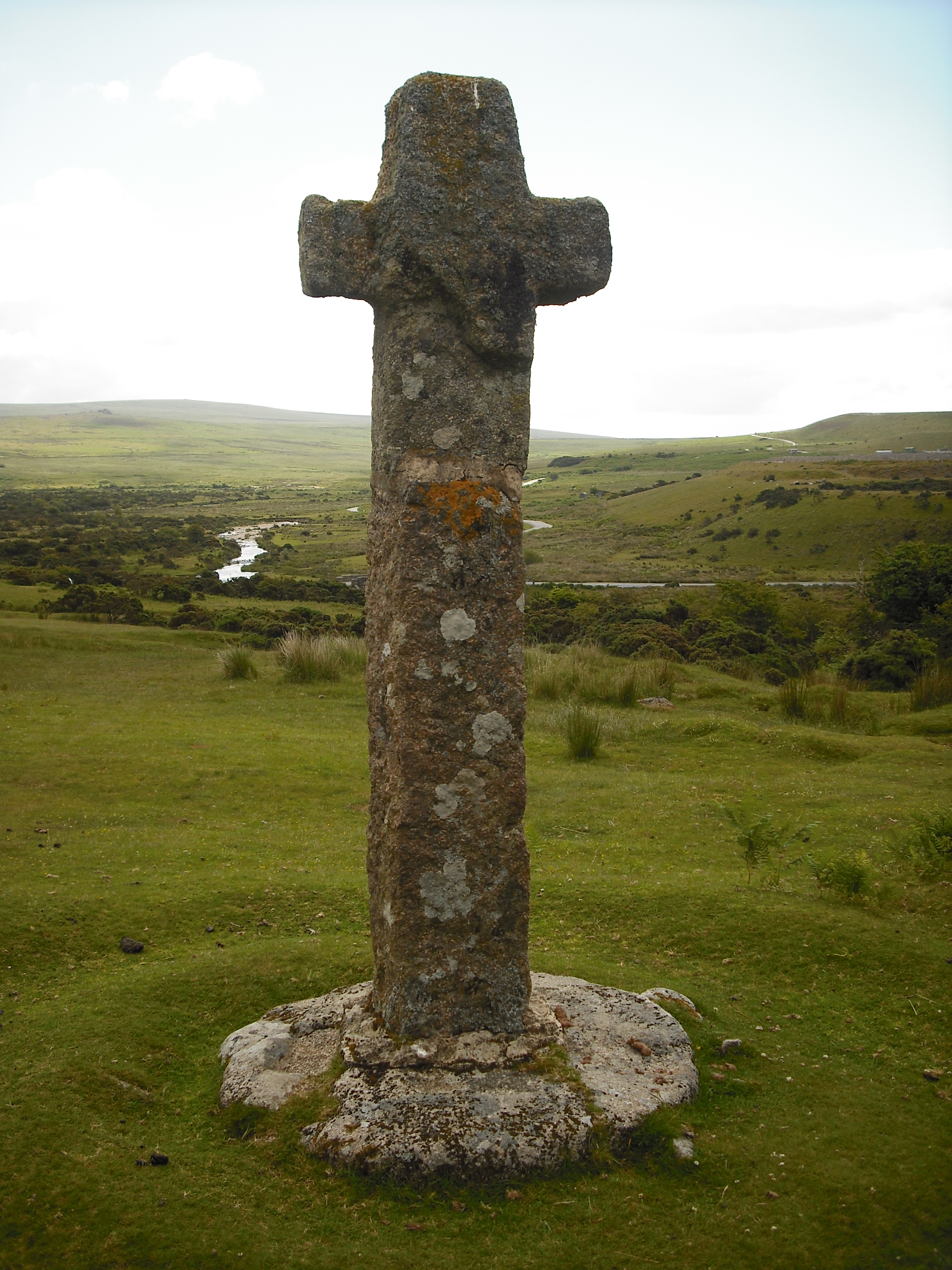 Photo of Cadover Cross near Shaugh Prior on Dartmoor, England.